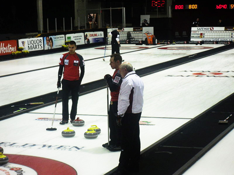 Matt Wozniak, Denni Neufeld, and coach Chris Neufeld on the right at the 2010 Safeway Championship in Steinbach.